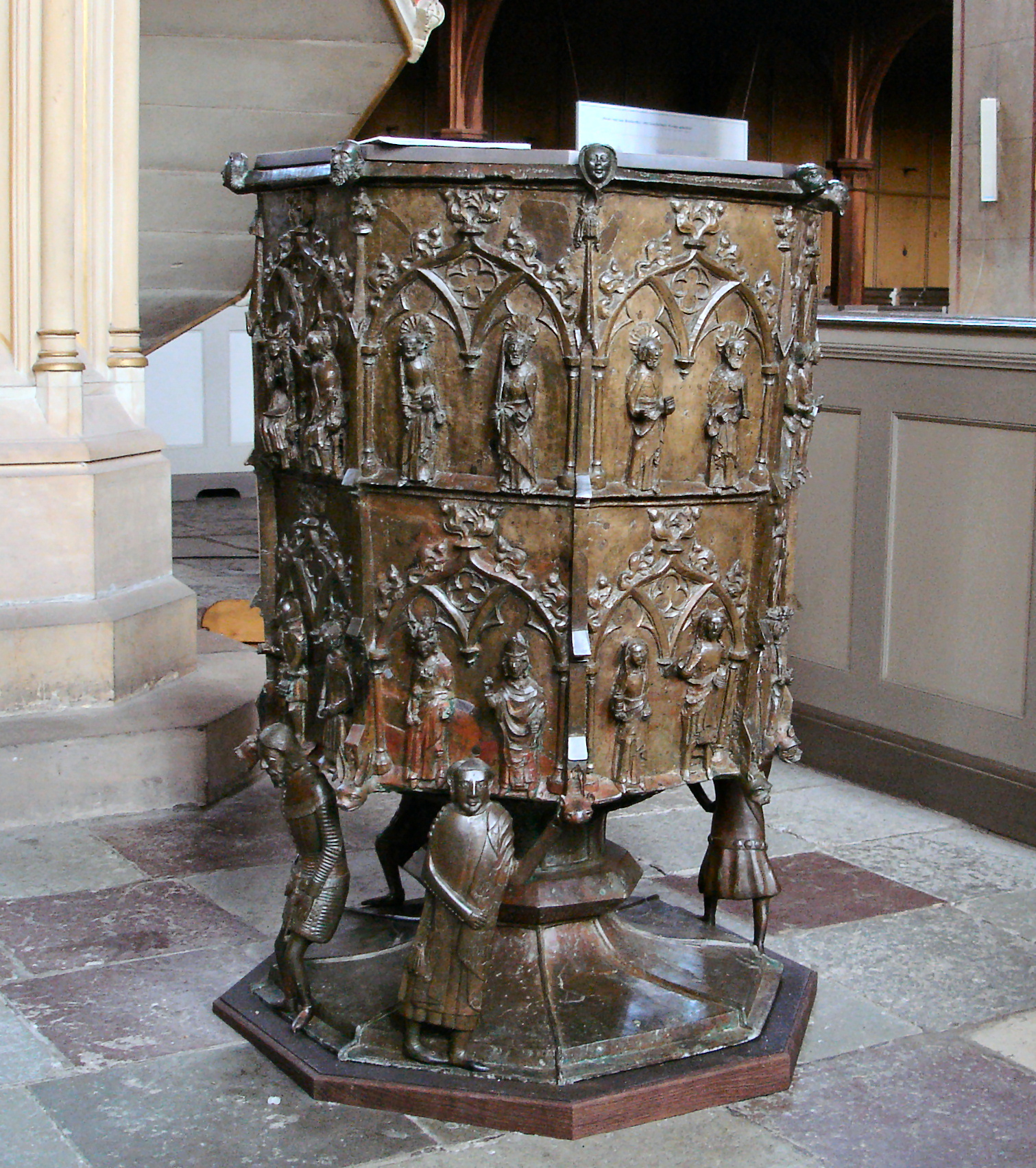 Baptismal font in the Marienkirche in Barth